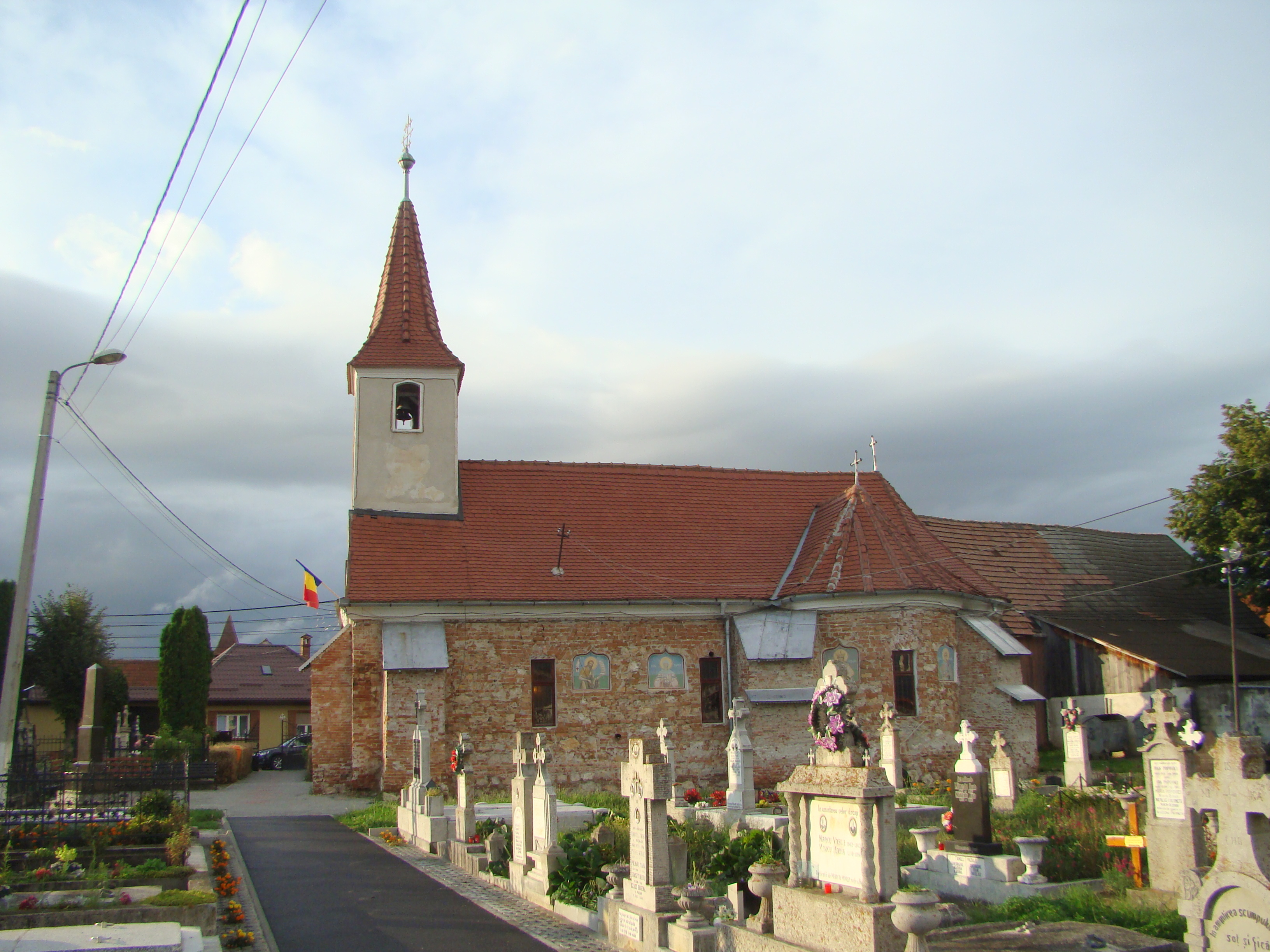 Holy Trinity Church in Ghimbav, Brașov County, Romania